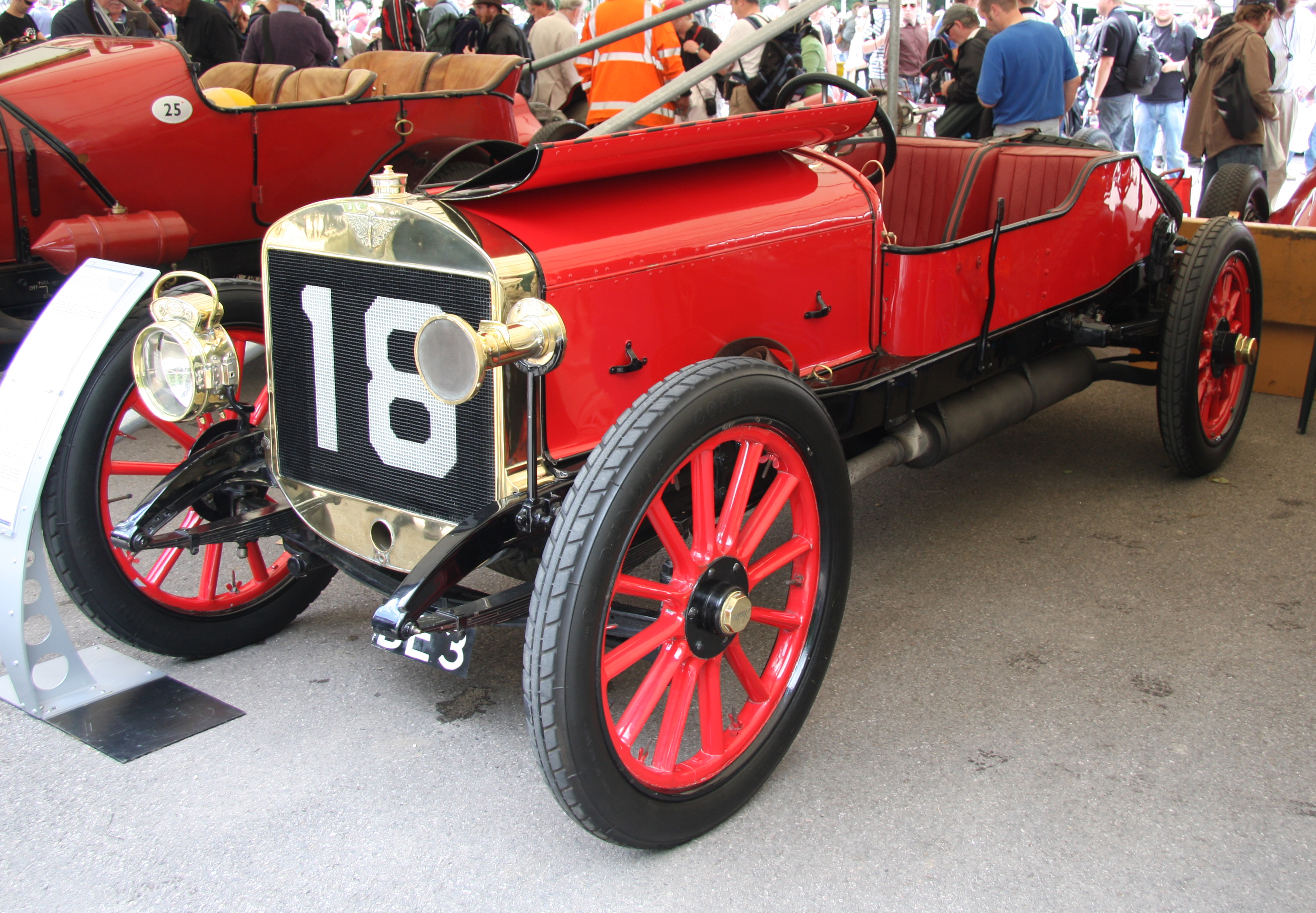 Built 1908. 9.7 litre 6 cylinder engine 6-cylinder, 9657 cc, 171 bhp top speed 92 mph or 148 kph coachwork open racing body registration BE3 In the winter of 1907/08 Austin built a team of cars to be entered in the French Grand Prix. Two of these had chain drive and two shaft drive but both the shaft drive cars crashed in practice and parts were amalgamated to build a "fifth" shaft drive car. This is the car on display Many parts were shared with the 60 hp touring car and this vehicle was no match for its Continental opposition